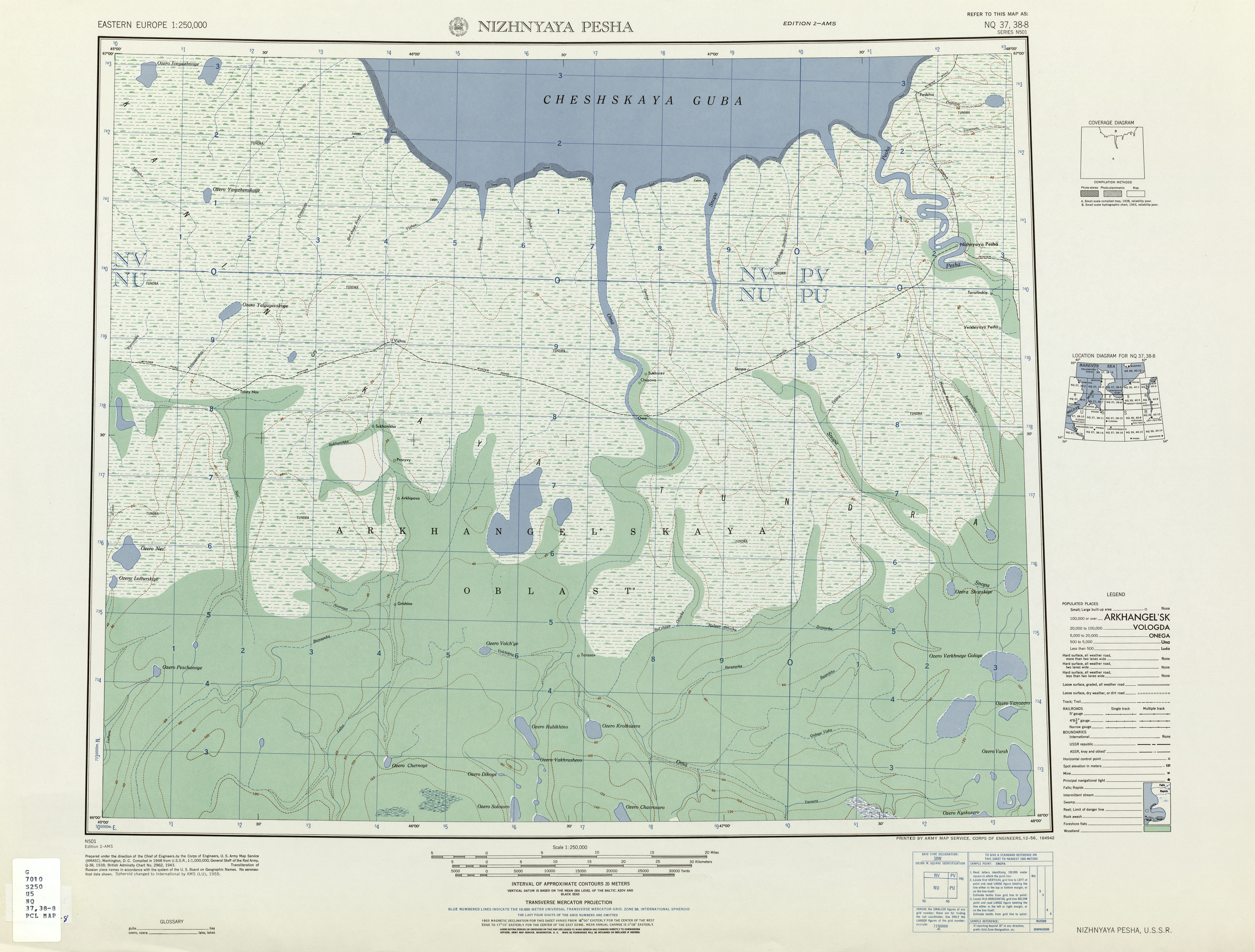 List from Eastern Europe AMS Topographic Maps. Series N501, U.S. Army Map Service, 1954